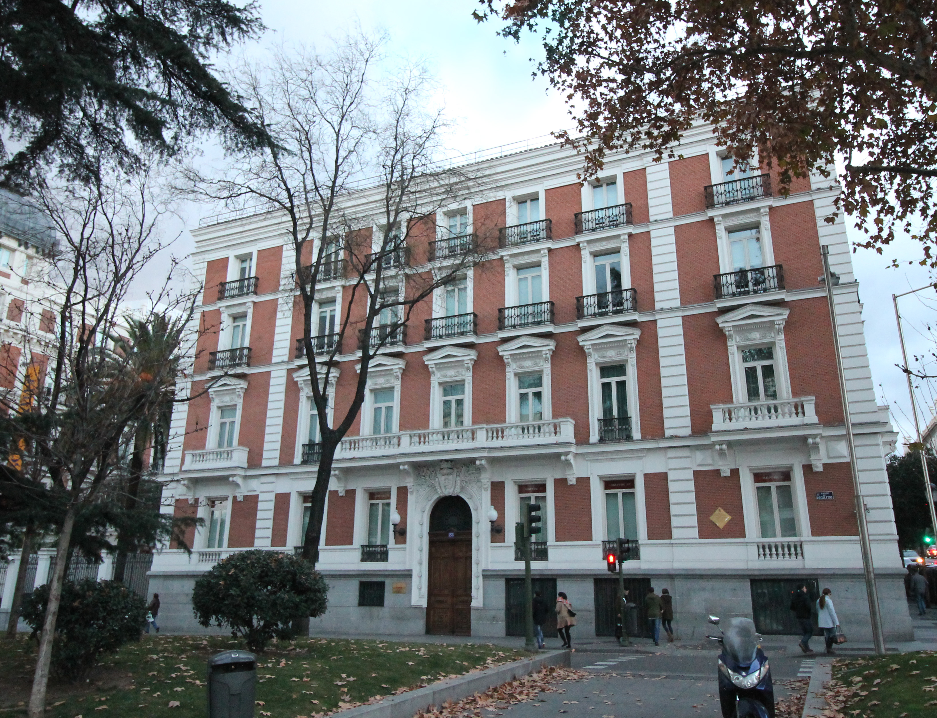 South-east façade of the former mansion of the Duke of Elduayen in Madrid (Spain).